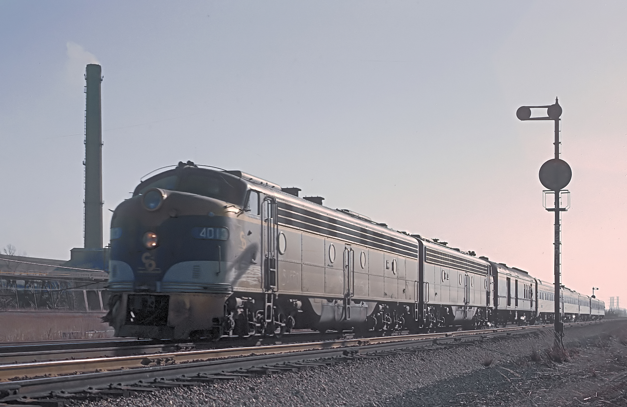 A Roger Puta Photograph